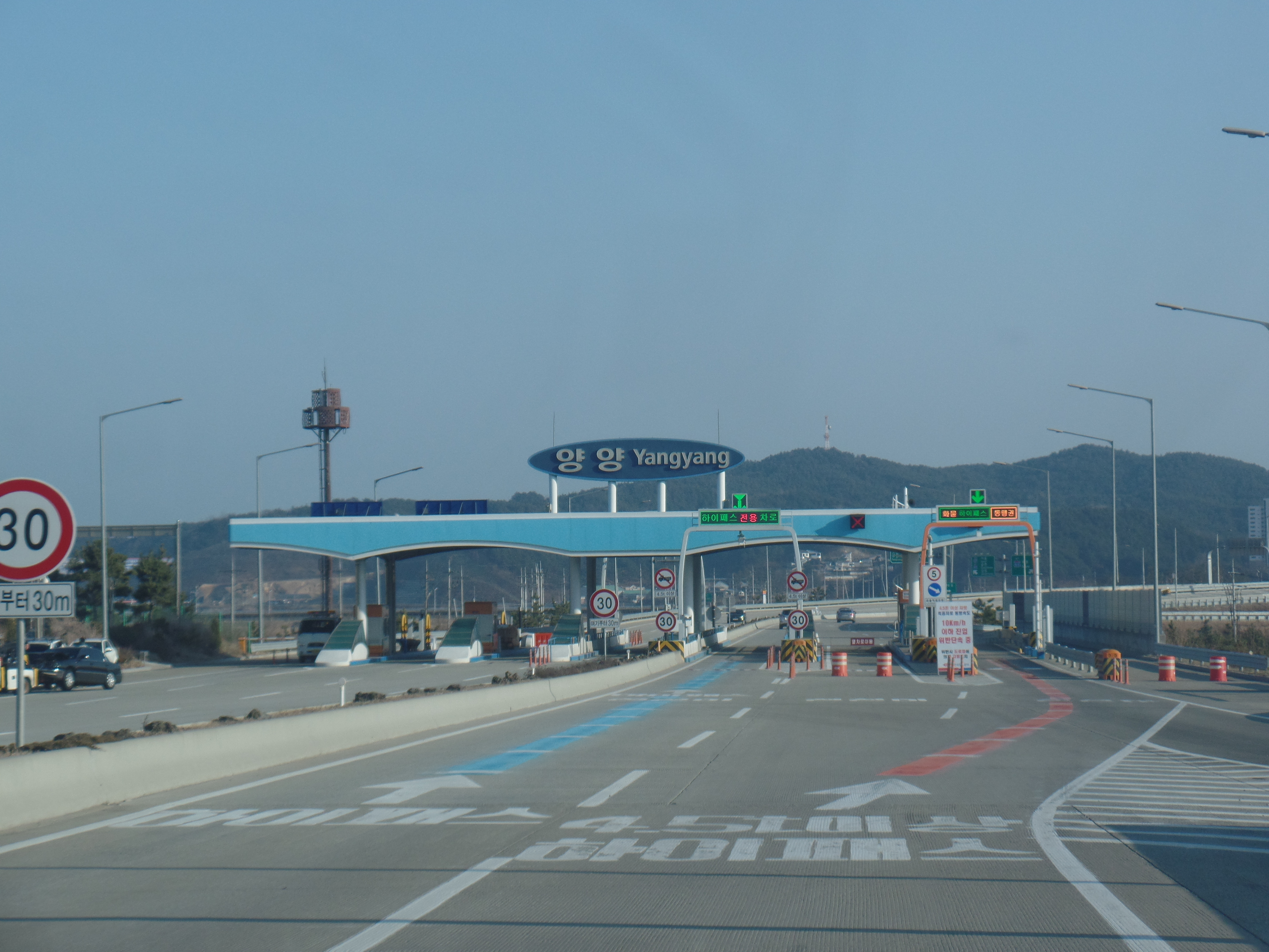 Seoul-Yangyang Expressway, Donghae Expressway Yangyang Interchange Tollgate(Entrance)